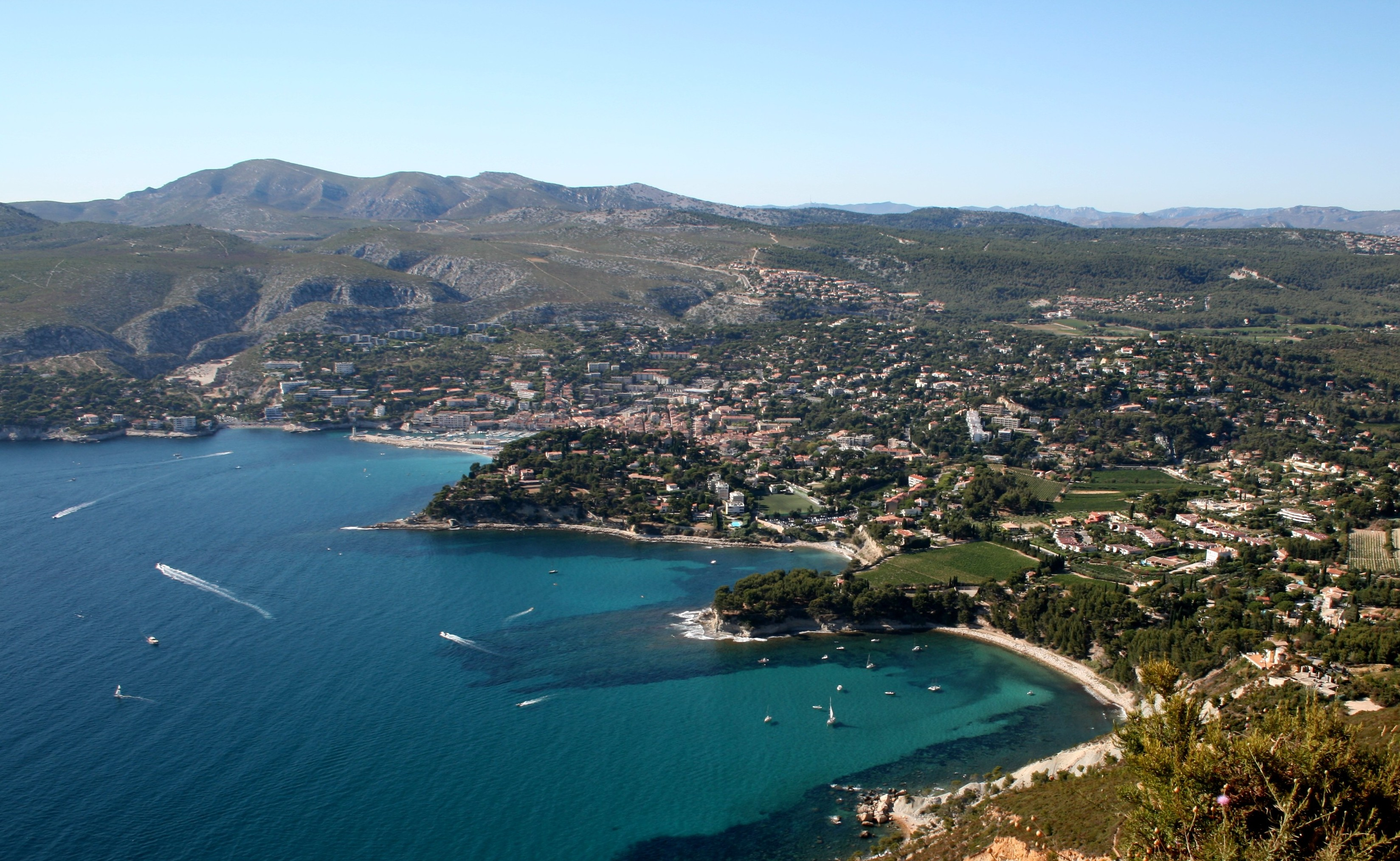 Cassis, a city in southern France, seen from the cliffs